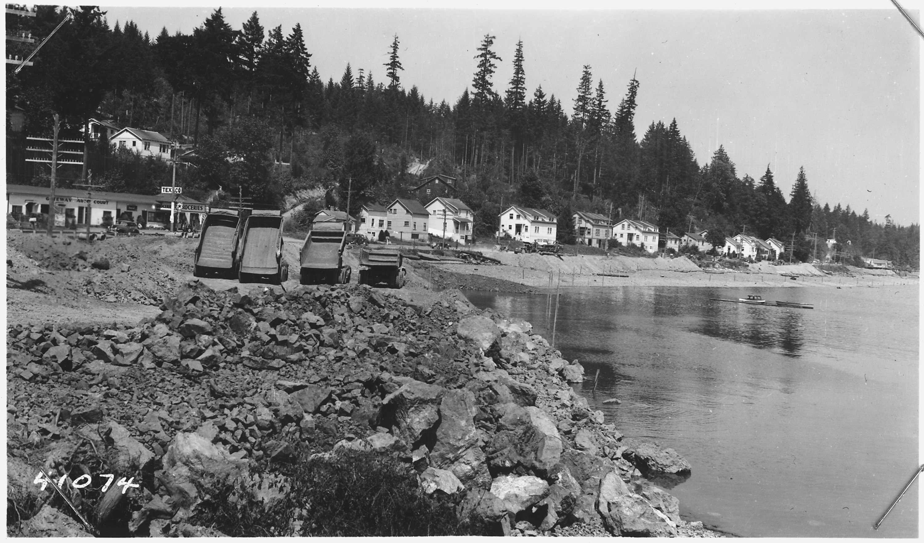 Scope and content: Federal highway file for Primary State Highway No. 21, Tidewater Creek to Bremerton Section.